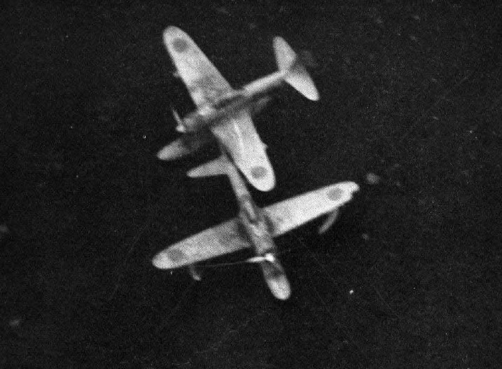 A U.S. Navy reconnaissance photo of two Japanese Nakajima A6M2-N Rufe seaplane fighters at Holtz Bay, Attu Island, Aleutian Islands (USA), on 7 November 1942, photographed by a USAAF plane. The left wing and float of the lower plane seem to be damaged.